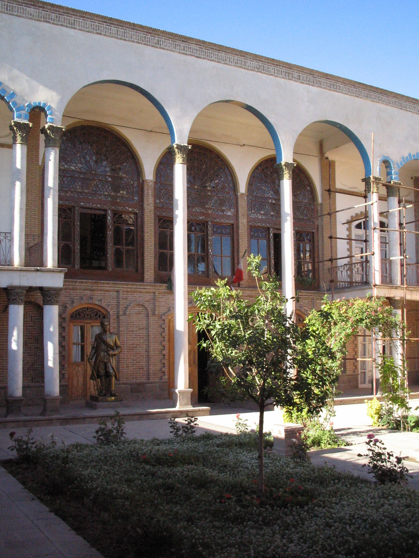 Khaneh Mashruteh (House of the Consitution) — museum in Tabriz, Iran.